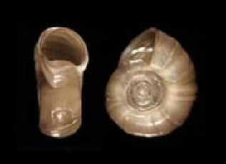 photo of apical and apertural view of the shell of Planorbella duryi, synonym: Helisoma duryi.